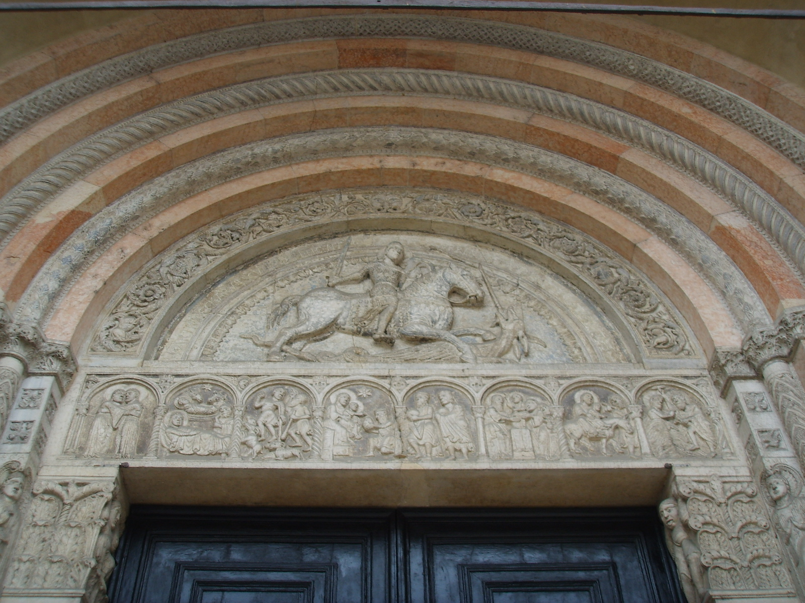 Lunette (showing Saint George) and architrave (showing Scenes from the New Teastament) from the main portal of the Cathedral of Ferrara, sculpted by Romanesque artist "Magister Nicholaus" (12th century).